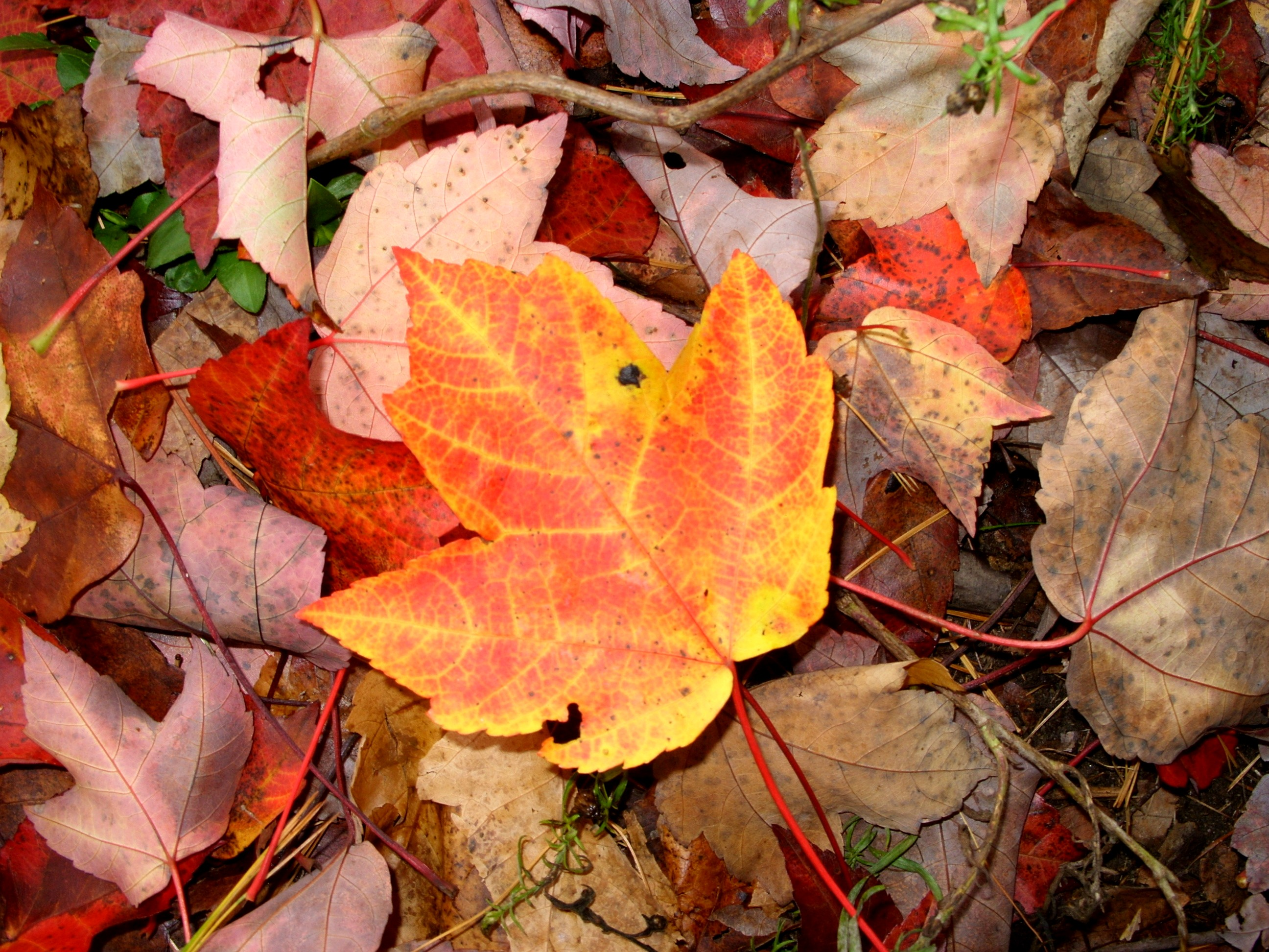 Colorful Red Maple Acer rubrum leaves, Worcester, Massachusetts, US.